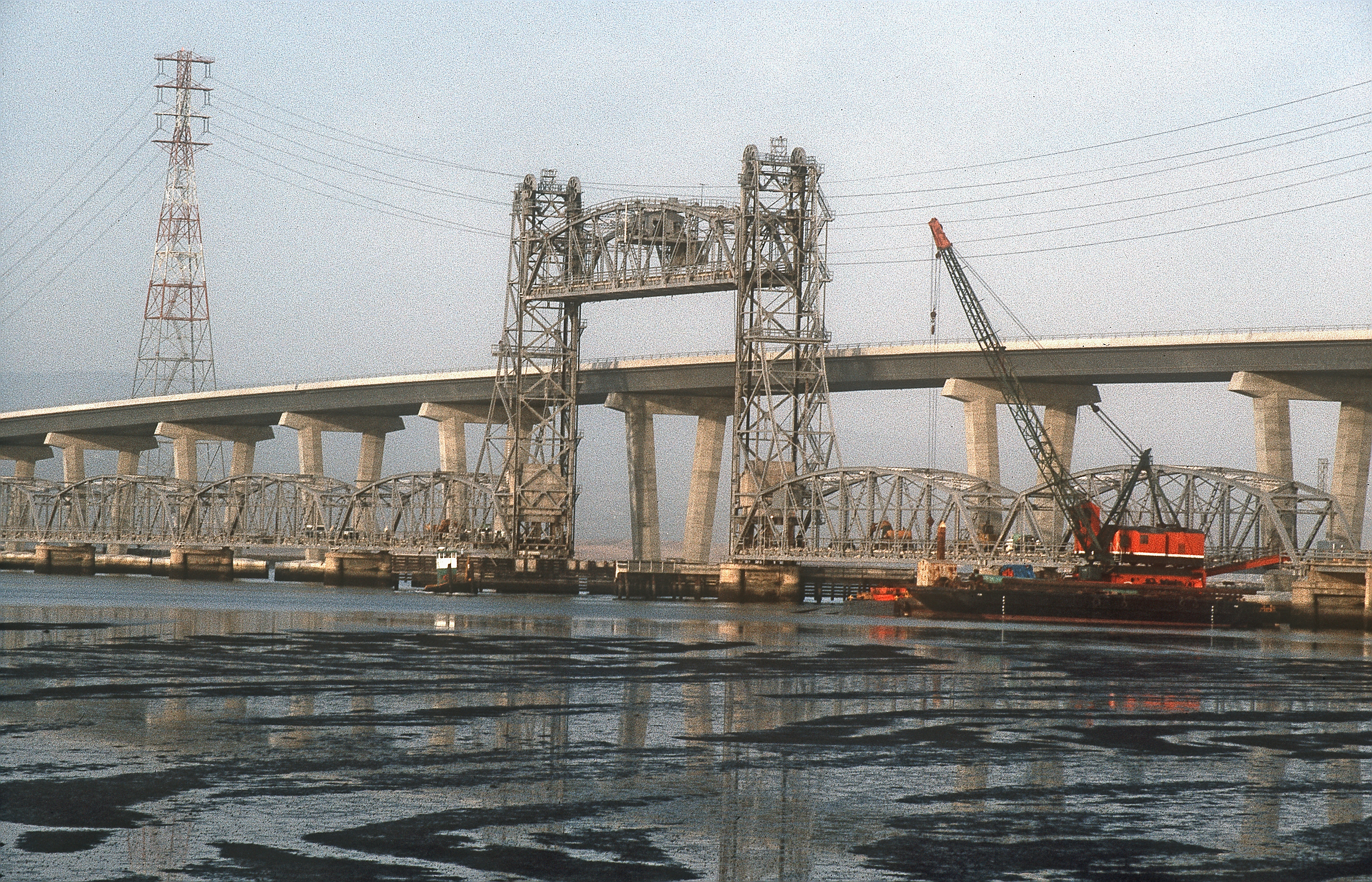 The original vertical-lift Dumbarton Bridge is shown alongside its replacement span, shortly before the demolition of the older bridge in September 1984. The bridge is the southernmost crossing of the San Francisco Bay.